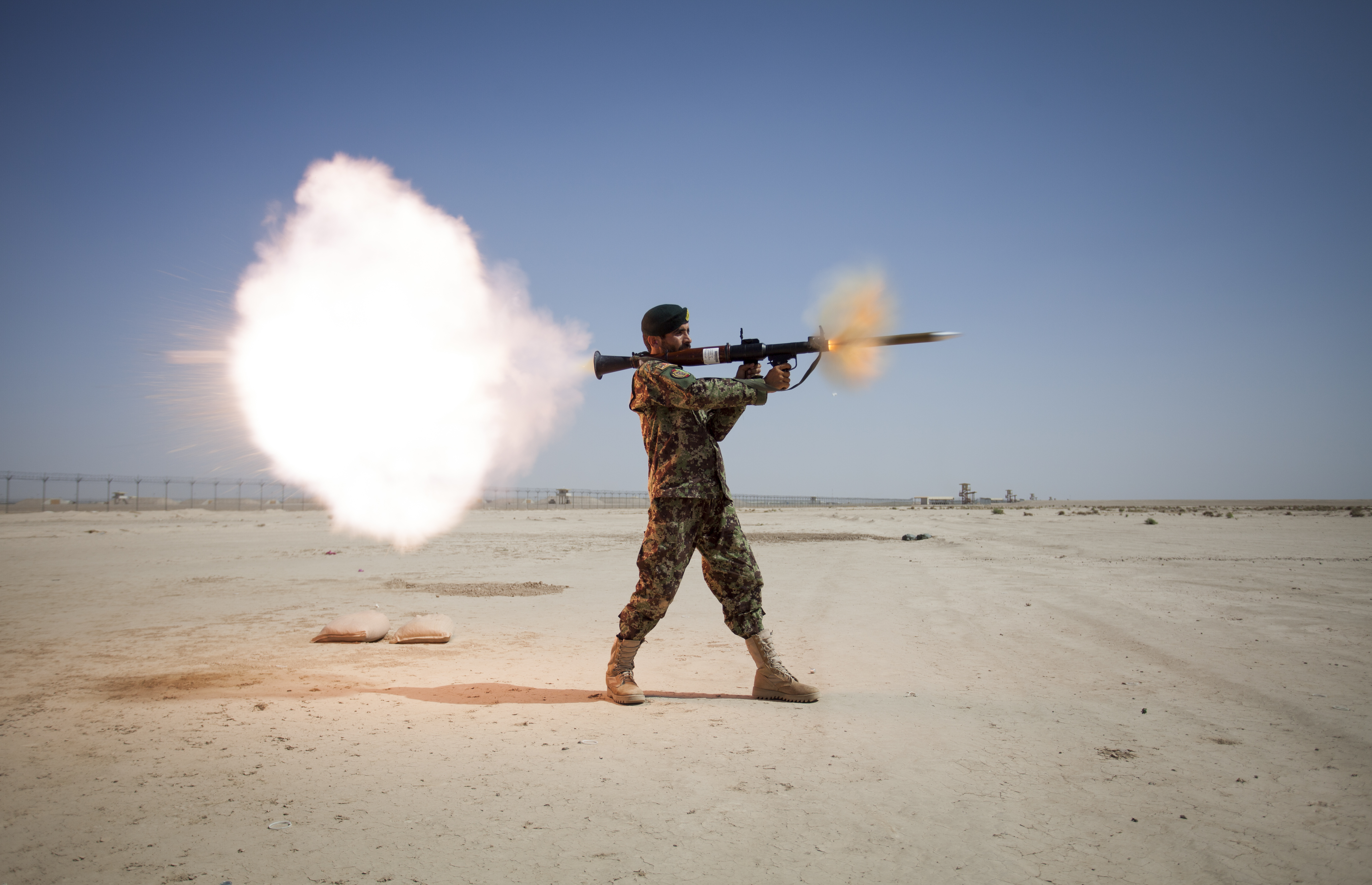 An Afghan National Army (ANA) soldier assigned to the Mobile Strike Force Kandak fires a RPG-7 rocket-propelled grenade launcher during a live-fire exercise supervised by the Marines with the Mobile Strike Force Advisor Team on Camp Shorabak, Helmand province, Afghanistan, May 20, 2013. The Marines with the Mobile Strike Force Advisor Team instructed and mentored their ANA counterparts on how to properly utilize their weapons systems. (Photo ID: 937183)